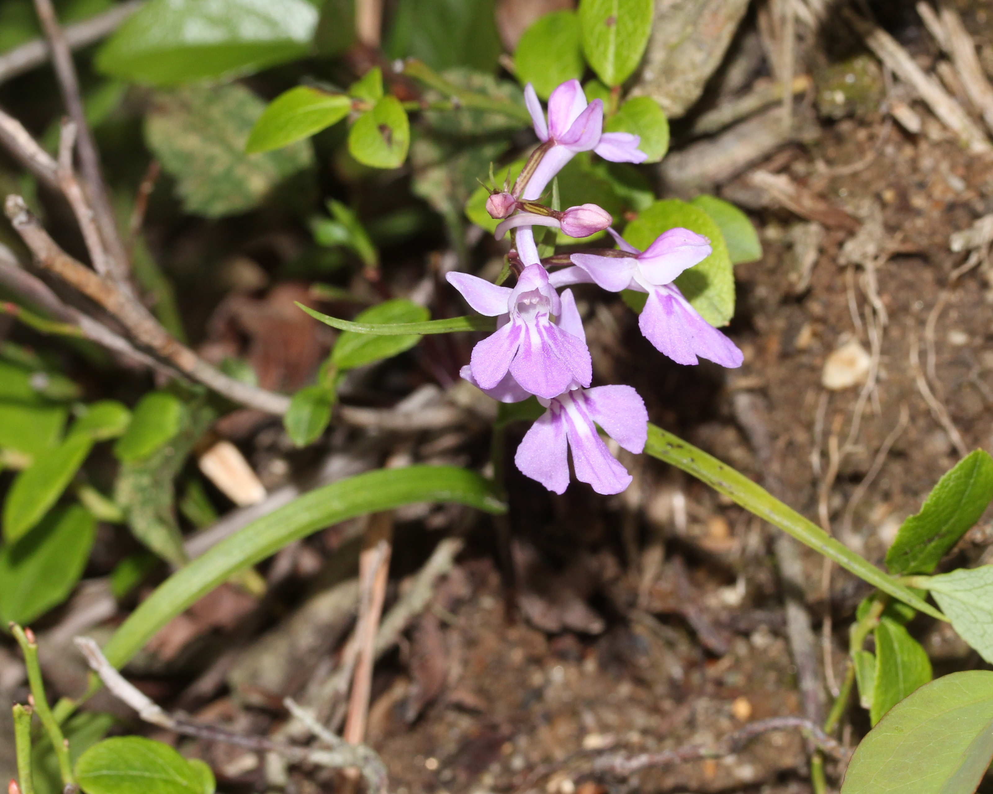 Ponerorchis graminifolia in Mount Gozaisho, Komono, Mie prefecture, Japan.